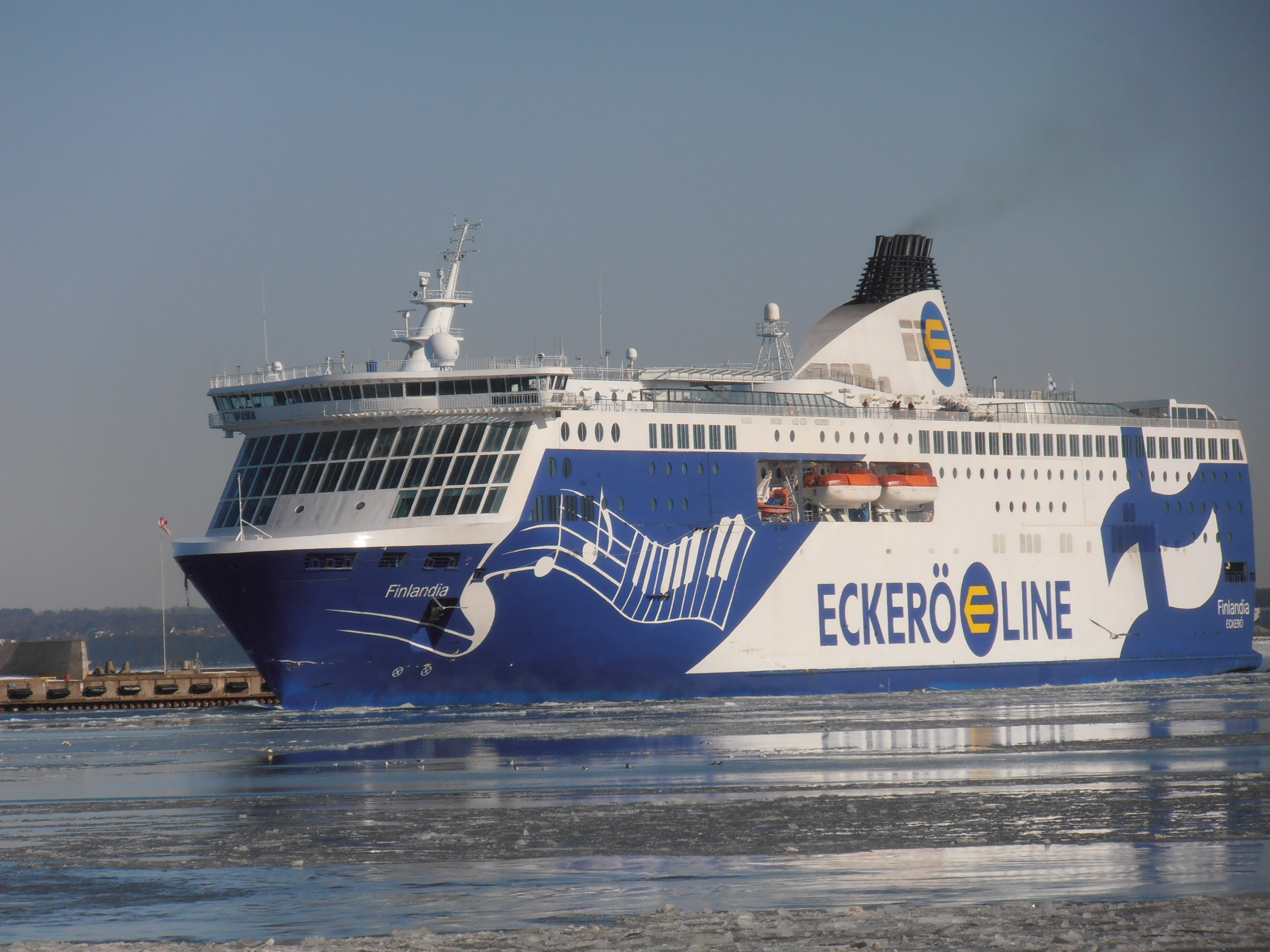 Ferry Finlandia arriving Tallinn 14 March 2013